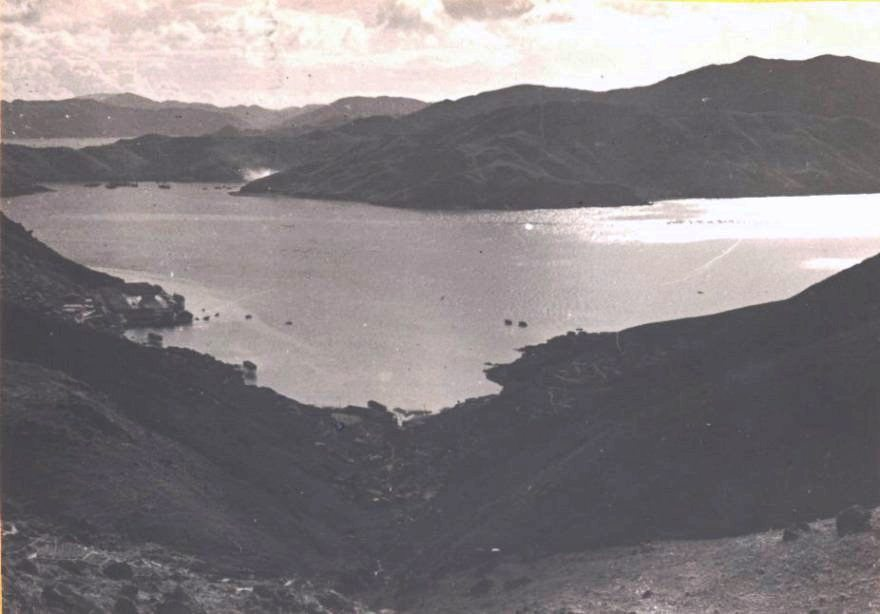 1952 of Tseung Kwan O (Junk Bay), Hong Kong which is taken from Tiu Keng Leng. 中文（香港）: 1952年從調景嶺拍攝的將軍澳。